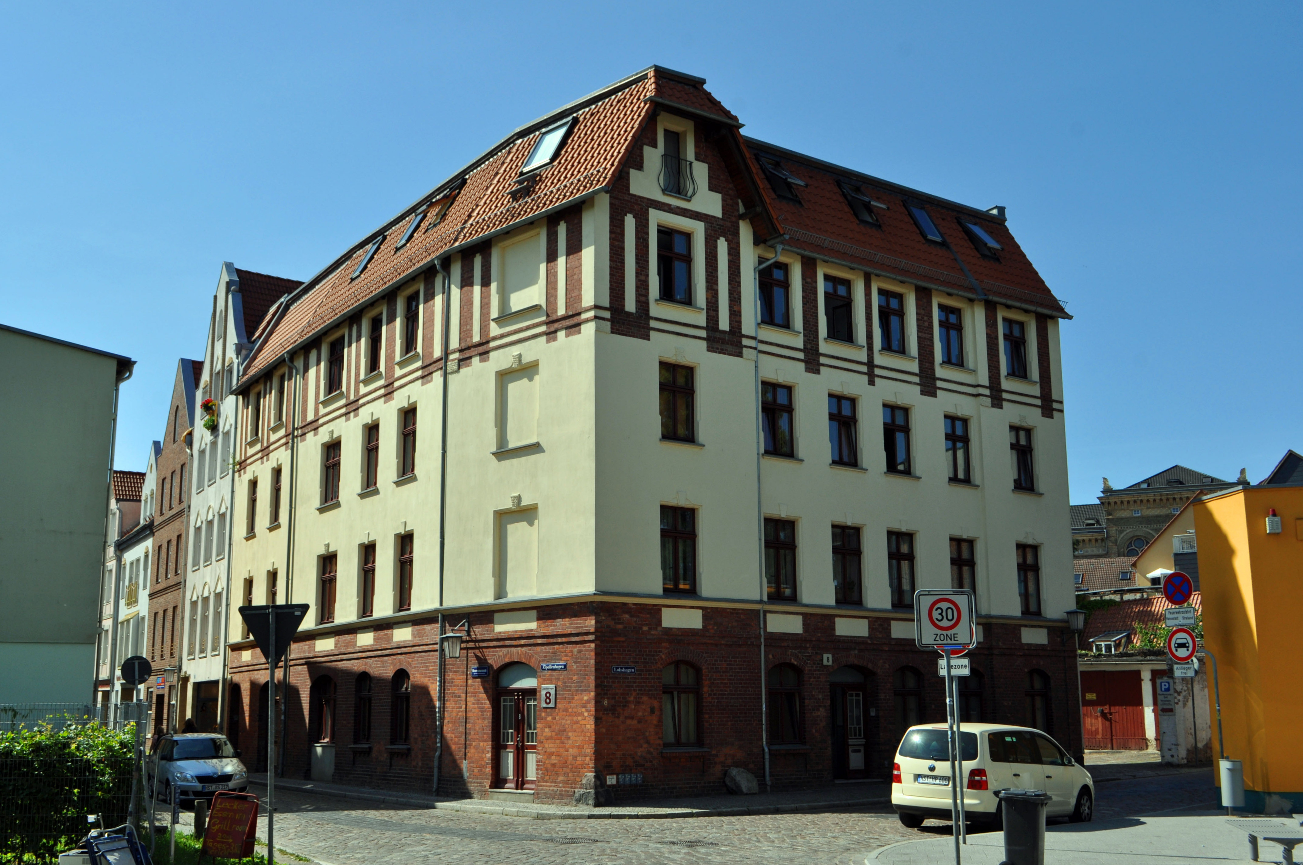 Gebäude in Stralsund, siehe Dateiname This is a photograph of an architectural monument.